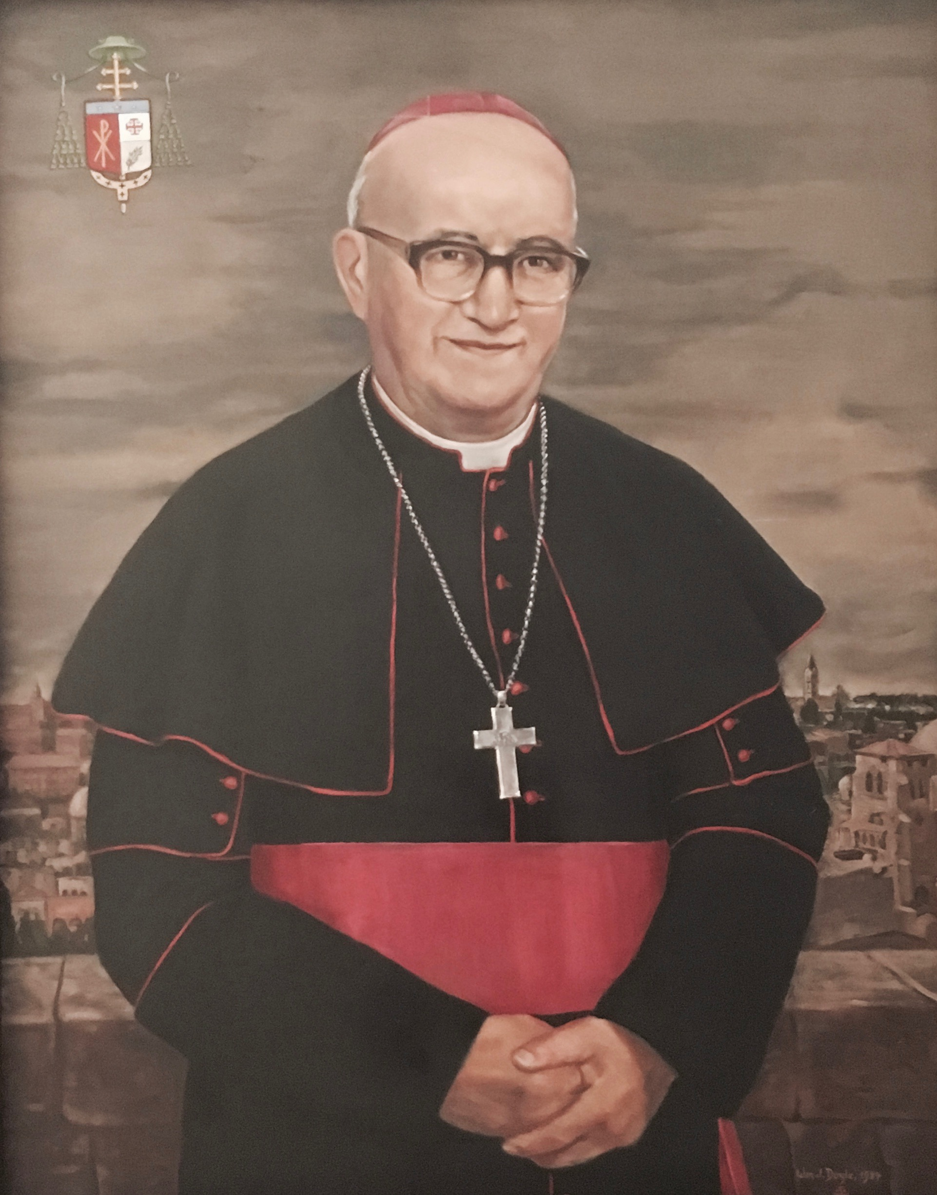 Portrait Giacomo Beltritti (Latin Patriarchate of Jerusalem)